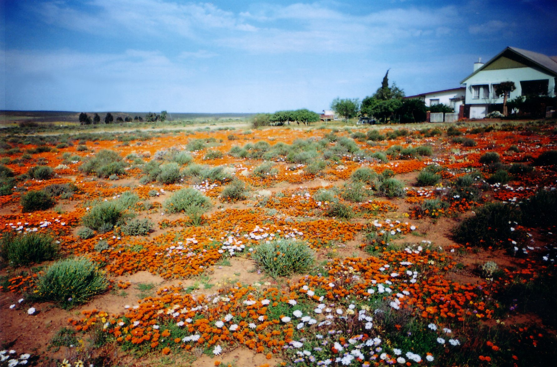 Spring flowers near Loeriesfontein in the Northern Cape of South Africa